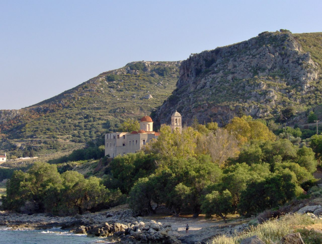 Moni Gonia Monastery, Crete